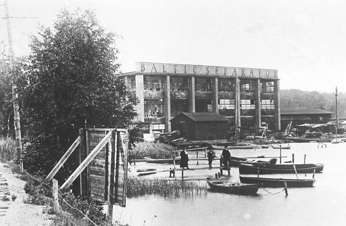 Baltic AB (later Separator, Alfa-Laval) factory in Södertälje, Sweden